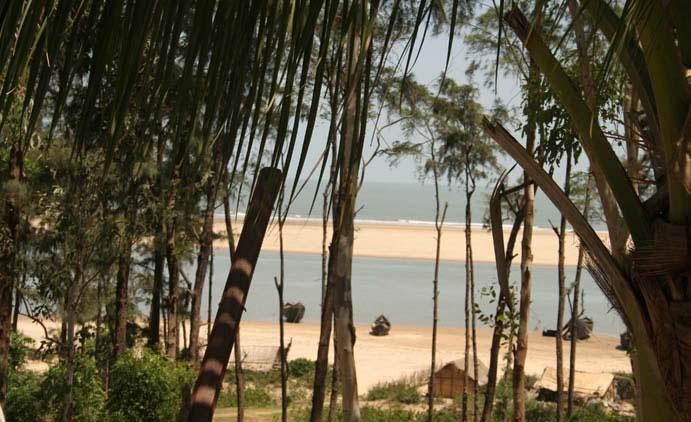 inside the coastal forest